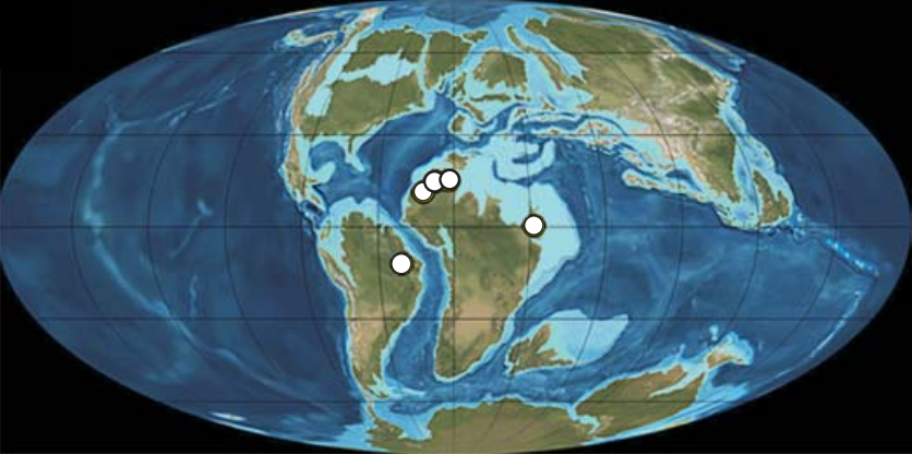 Generalized palaeogeographic locations of spinosaurids (white) during the Albian−Cenomanian.